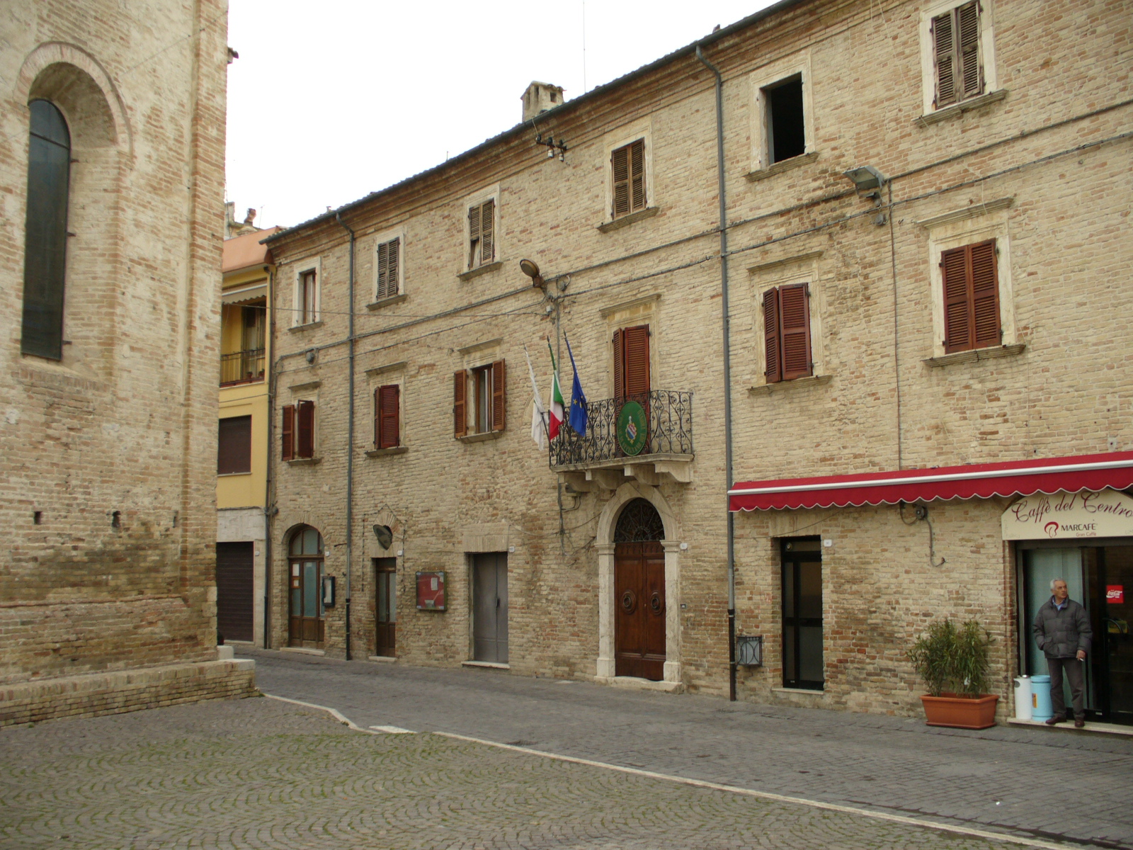 Appignano del Tronto, town hall.